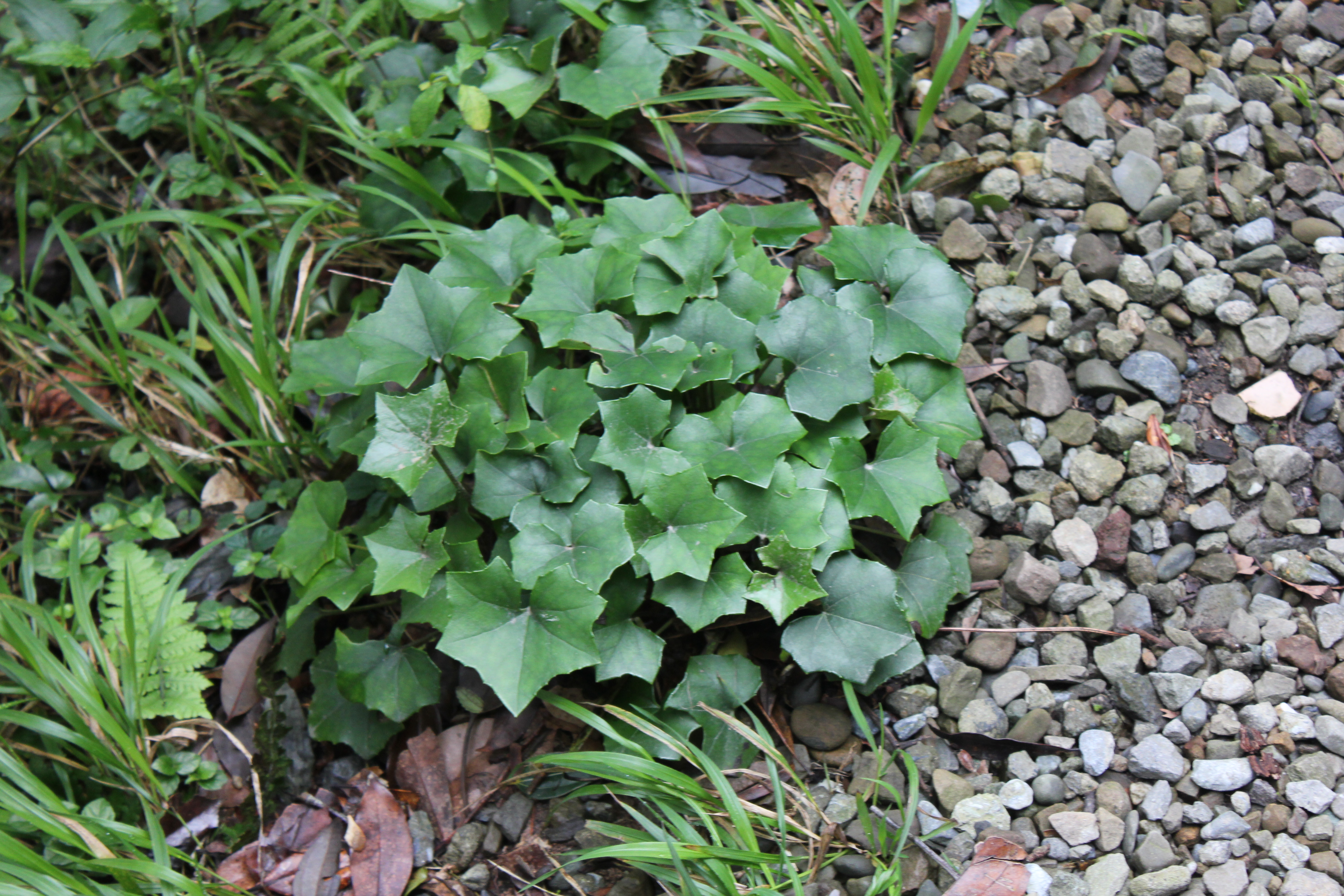 Reniform leaves of Farfugium japonicum var. formosanum at Erziping,Yangmingshan National Park, Taipei, Taiwan.